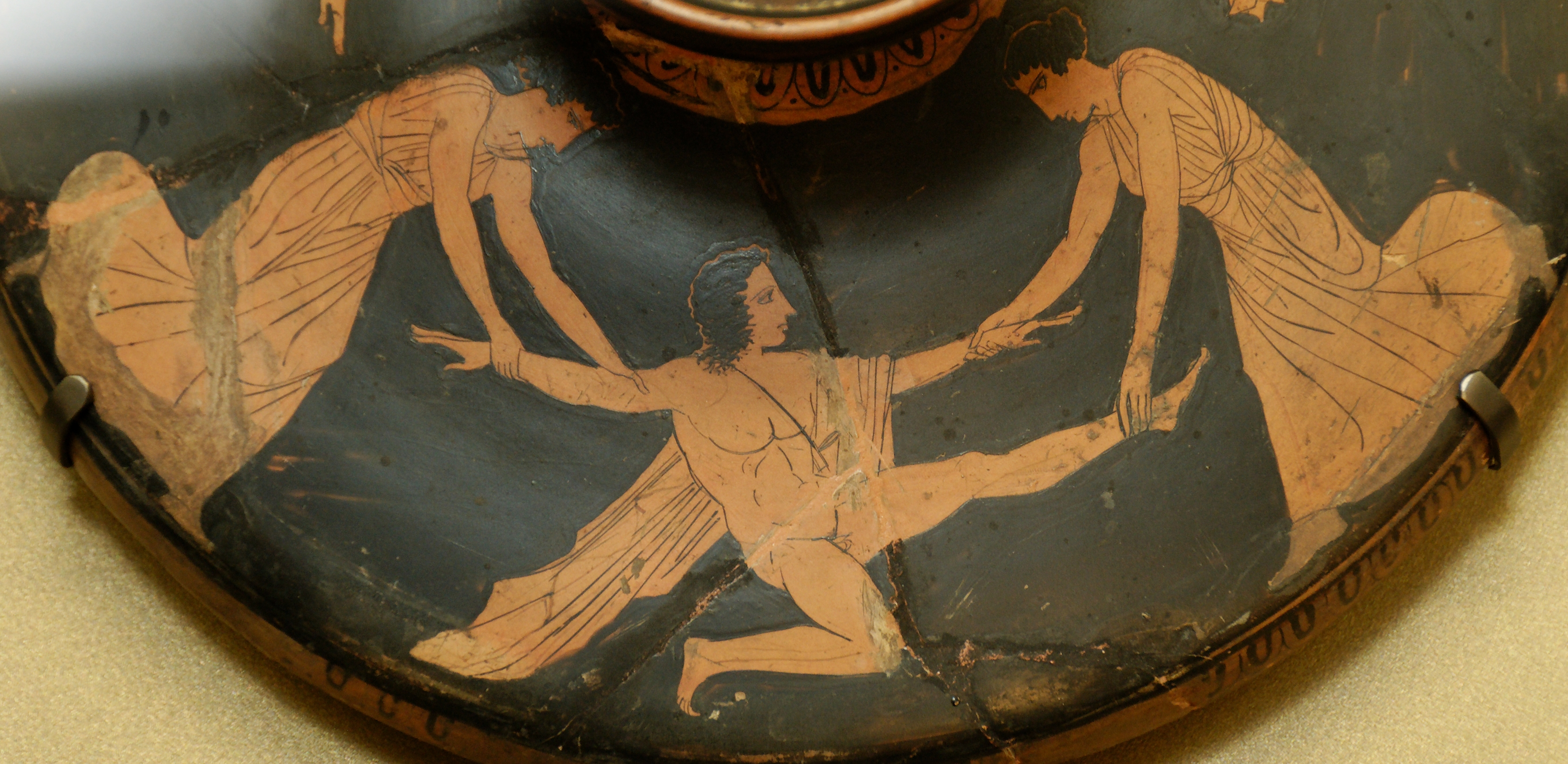 Pentheus torn apart by Agave and Ino. Attic red-figure lekanis (cosmetics bowl) lid, ca. 450-425 BC.